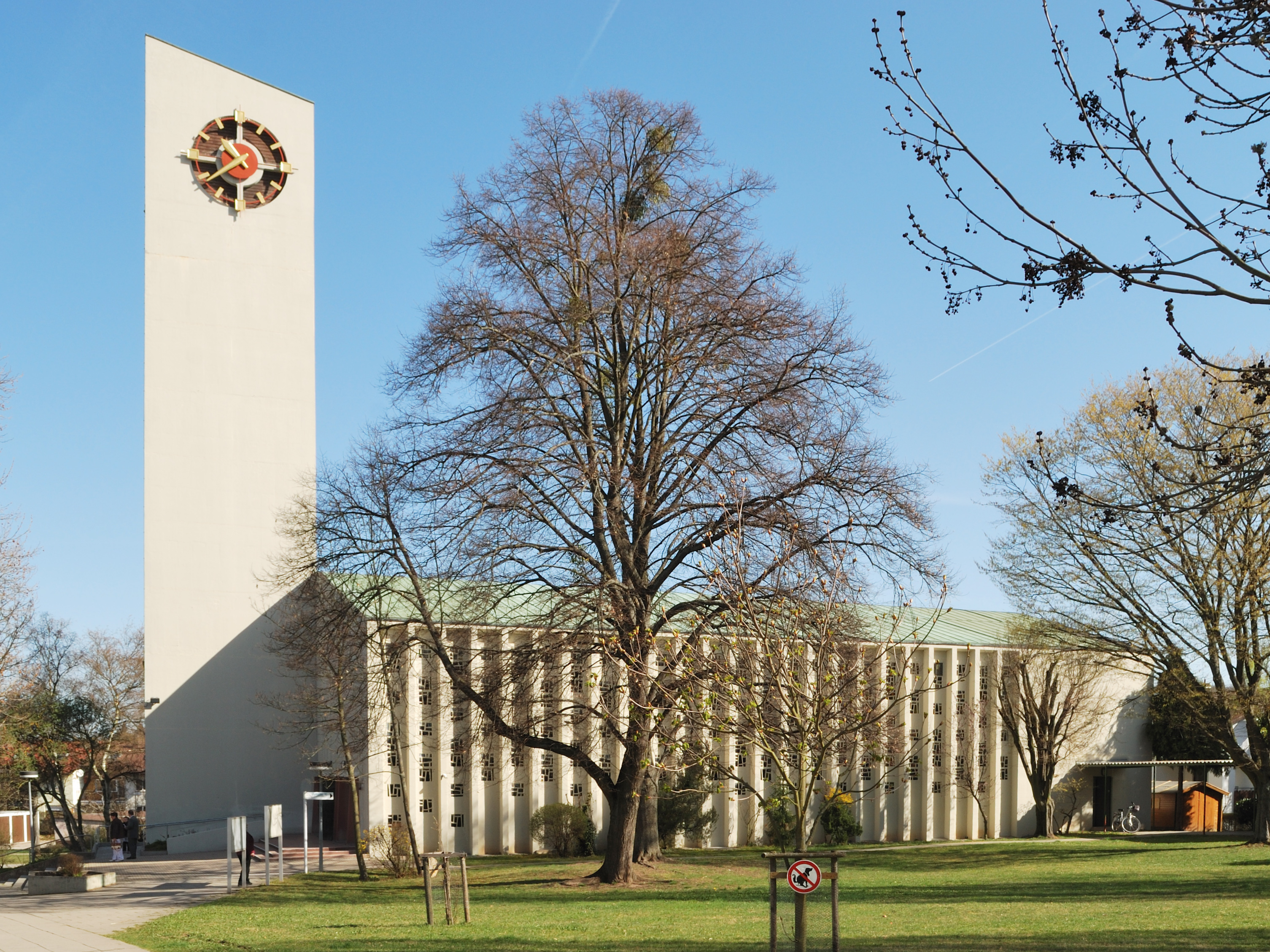 The protestant Stephanus Church in Giebel, a district of Stuttgart in the German Federal State Baden-Württemberg.